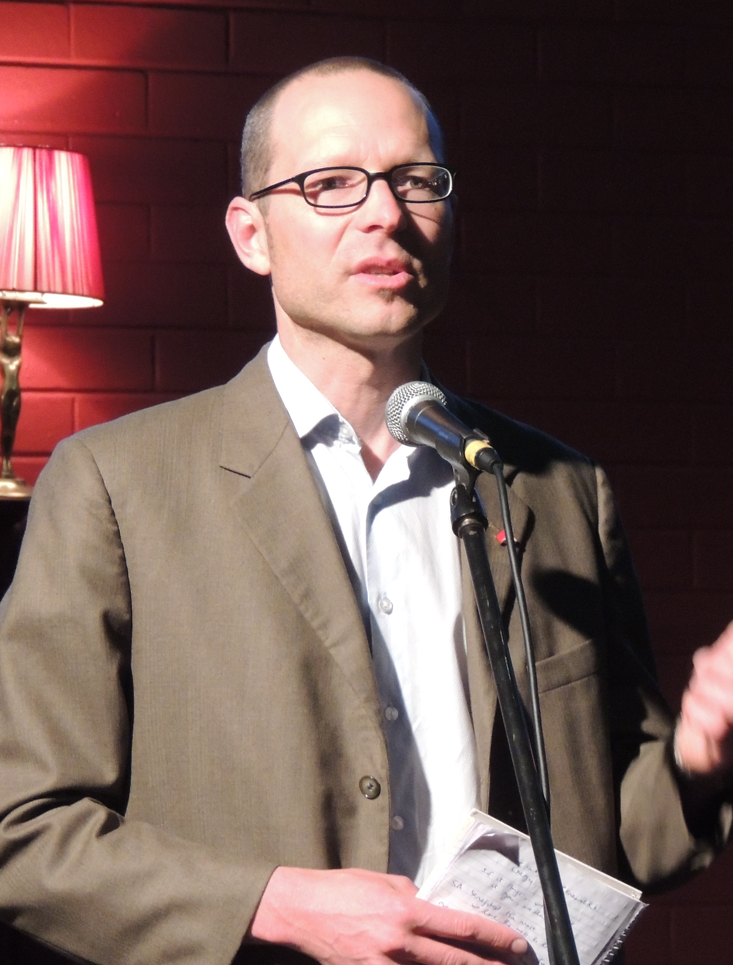 Craig Wilkins speaks at the Governor Hindmarsh Hotel, South Australia (2014)